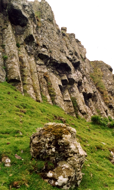 Dunagoil. Columnar basalts at Port Dornach by Dunagoil Bay on the island of Bute, Scotland.